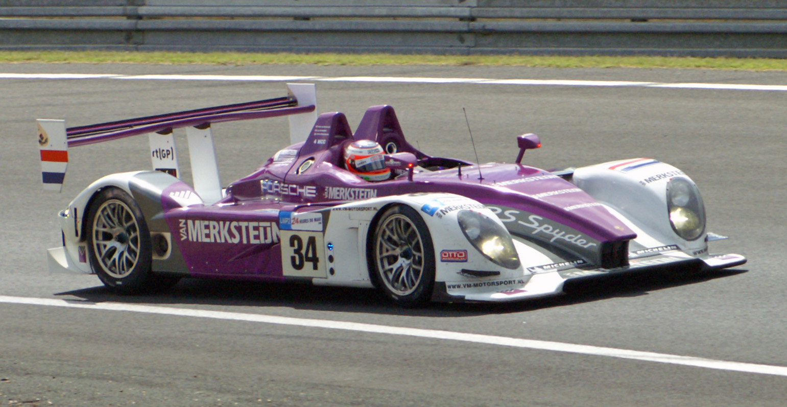 Porsche RS Spyder Evo of Van Merksteijn Motorsport at the 24h Le Mans in 2008.